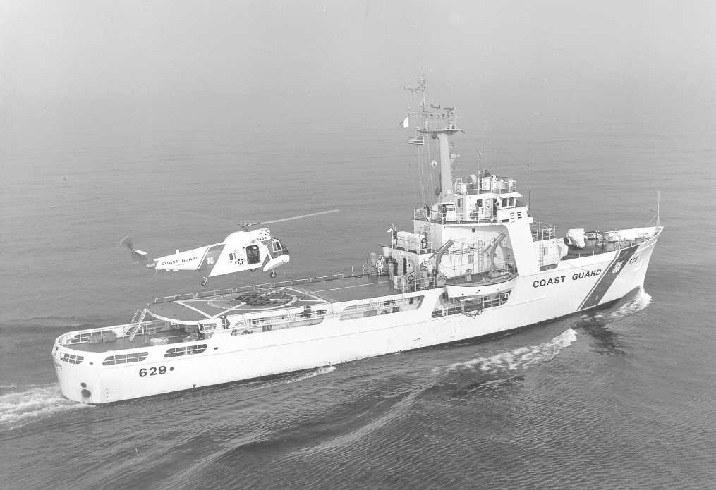 USCGC Decisive; no caption/number. The crew of the Decisive undertaking helicopter touch-down and tie-down drill with HH-52A #1463. Note the "grid deck" apparatus on the flight deck which was used during flight operations at sea. The rectangular grids acted as immediate wheel chocks, keeping the helicopter stationary while the flight deck crew secured the helicopter with tie-down straps. The Coast Guard experimented with a number of landing systems and methods during the mid-1960s and continued to refine day and night flight operations well into the 1970s.